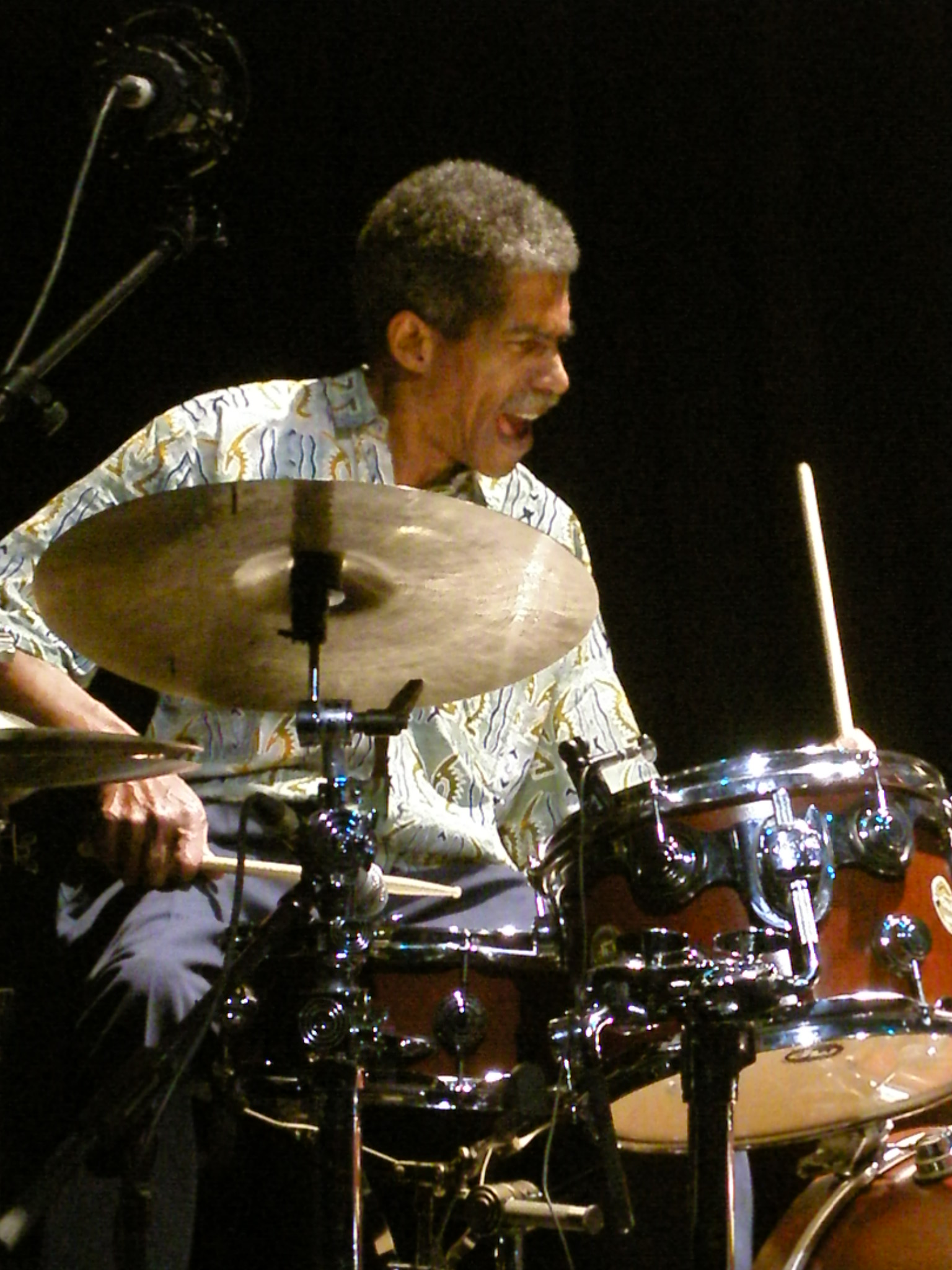 Steve Reid performing with Kieran Hebden (Four Tet) at Circulo de Bellas Artes in Madrid (Spain) for Red Bull Music Academy, on April 11th, 2008.